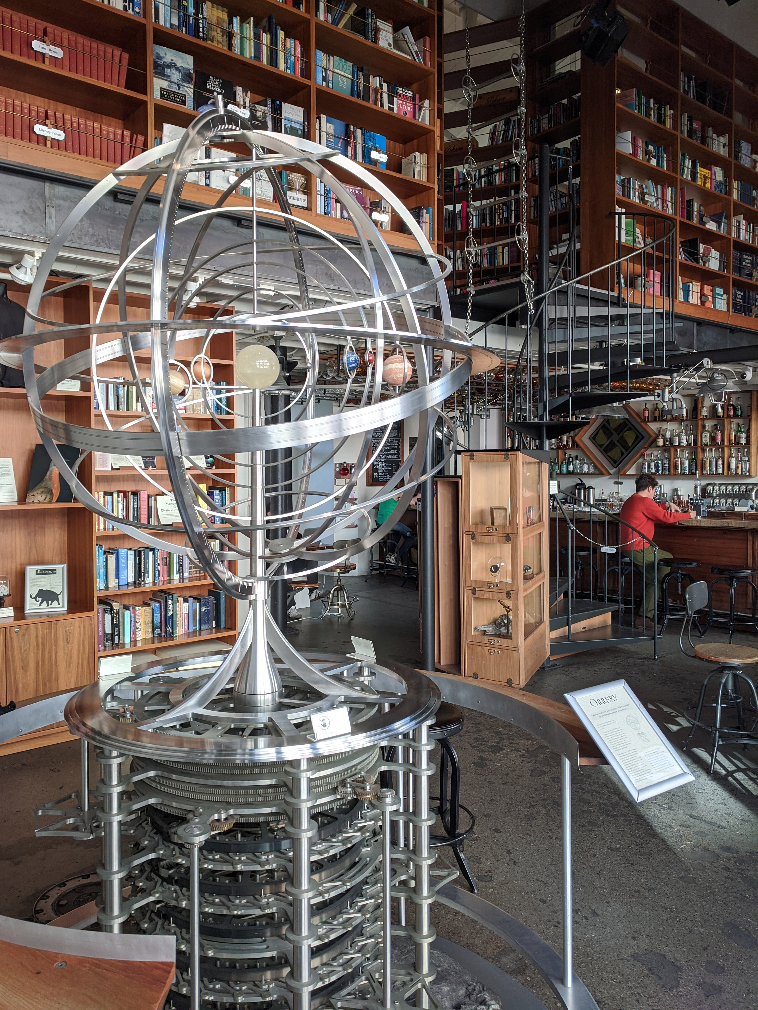 The Interval bar of The Long Now Foundation, San Francisco. In the foreground is an orrery.